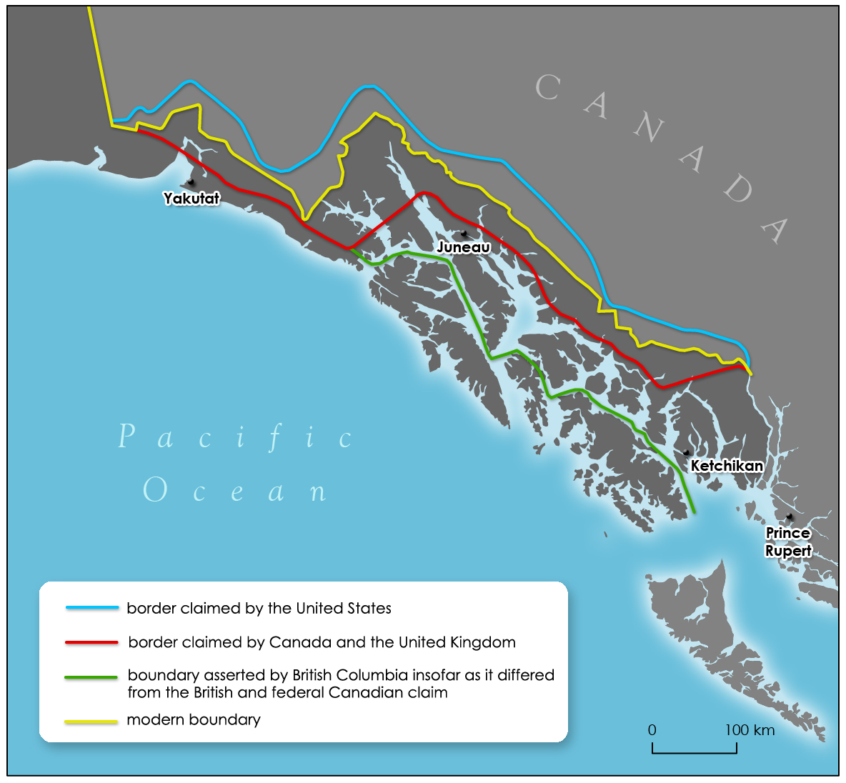 Varying claims in Southeast Alaska before arbitration in 1903. In blue is the border claimed by the United States, in red is the border claimed by Canada and the United Kingdom. Green is the boundary asserted by British Columbia insofar as it differed from the British and federal Canadian claim. Yellow indicates the modern border.